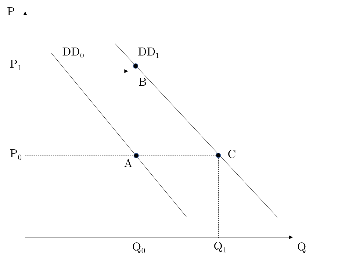 An increase in demand is depicted by a rightward shift in the demand curve, from DD0 to DD1. At first, a consumer is willing to consumer Q0 units of goods at the price P0, shown by Point A. After their demand for the good increases, for the same quantity demanded Q0, they are now willing to pay at price P1, shown by Point B. For the original price P0, they are now willing consume Q1 units, shown by Point C.